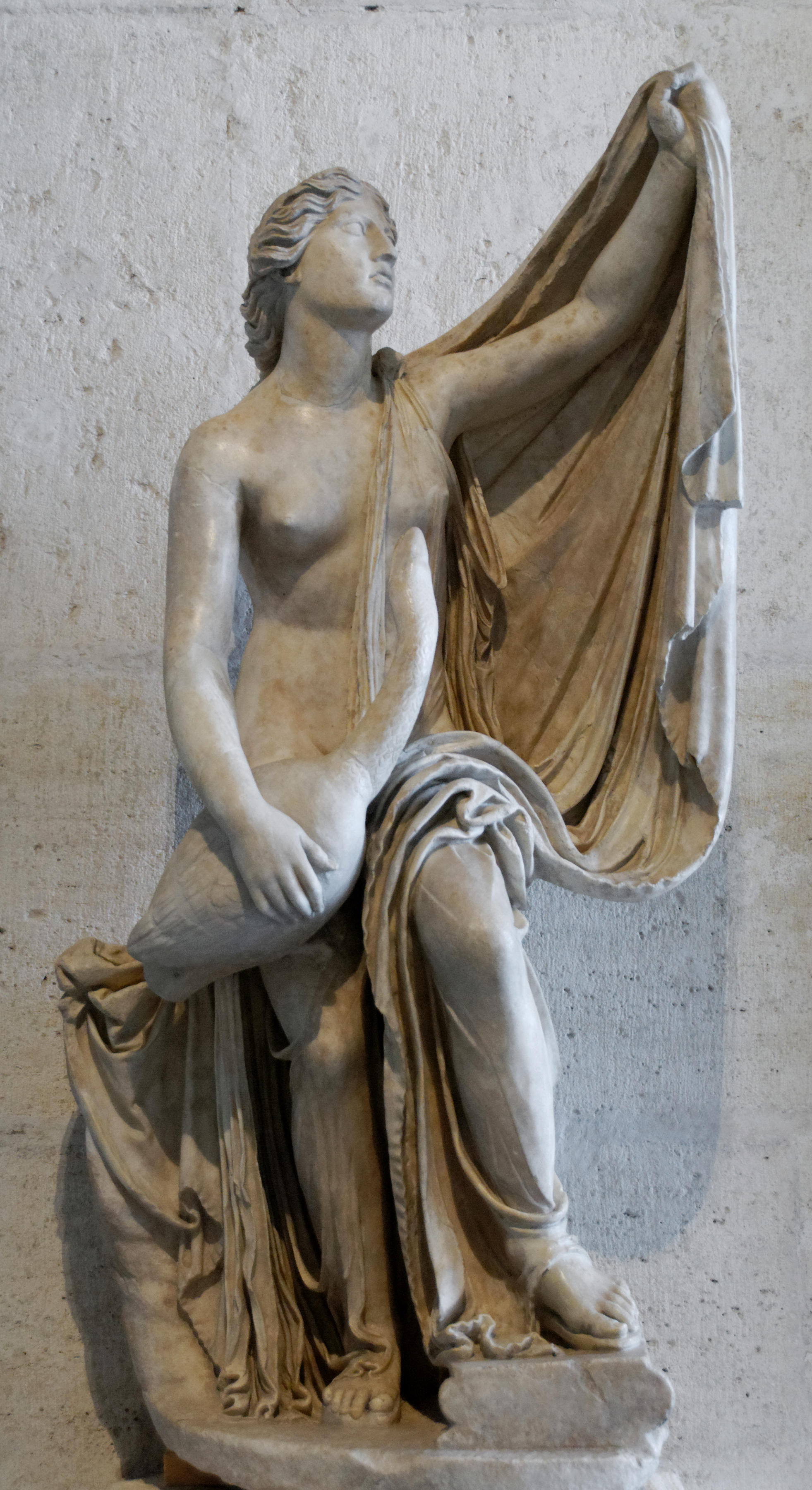 Roman copy after a Greek original of the 4th century BC.